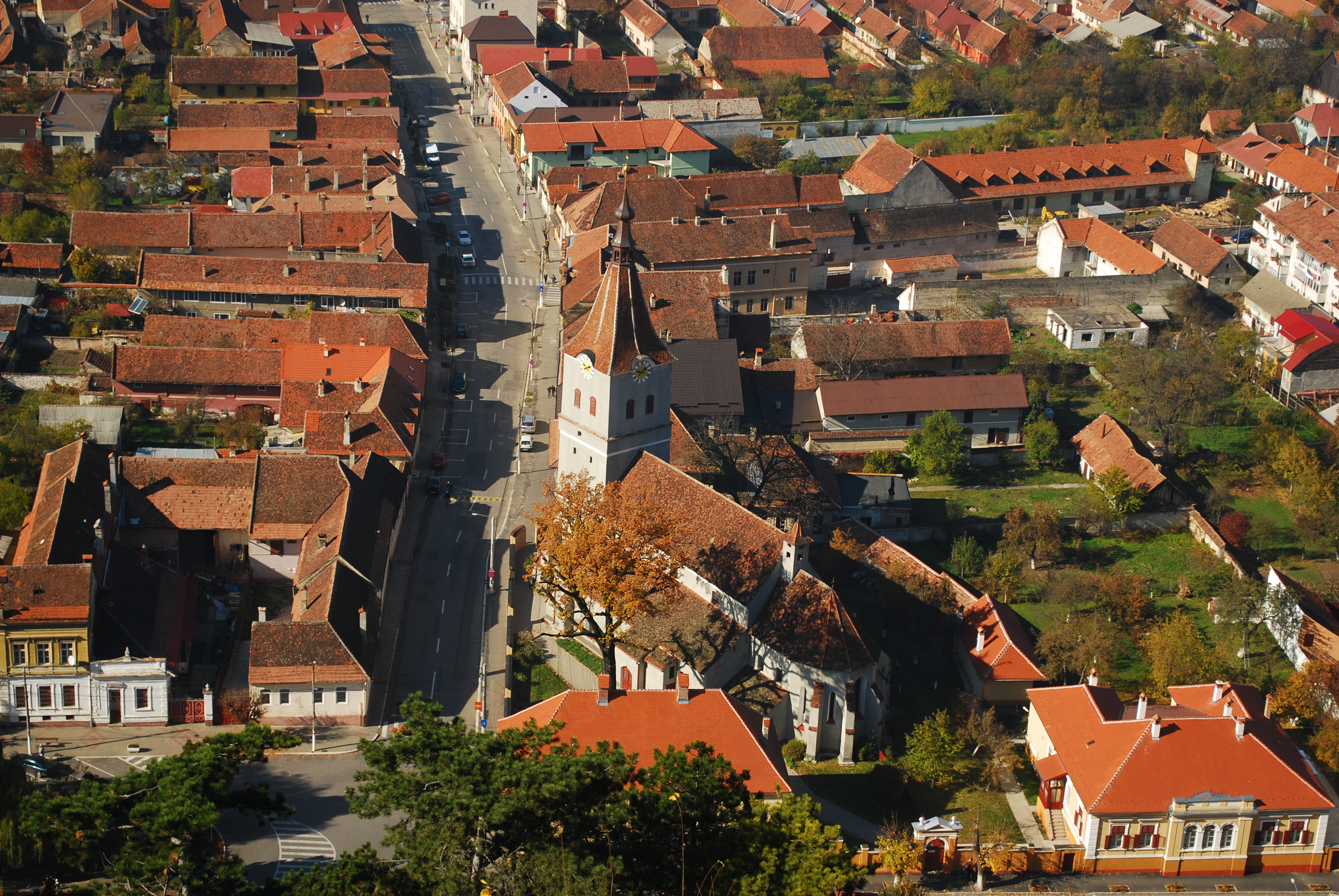 The Lutheran church in Râşnov, Braşov County, Romania seen from the Râşnov fortress